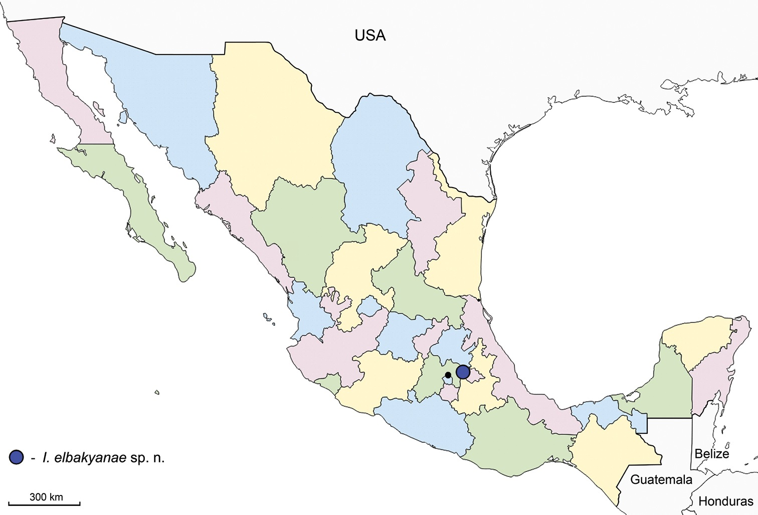 Distribution of type locality (and collection site for all known specimens) for Idiogramma elbakyanae (Original image also showed locations for I. cornstocki and Gelanes horstmanni)